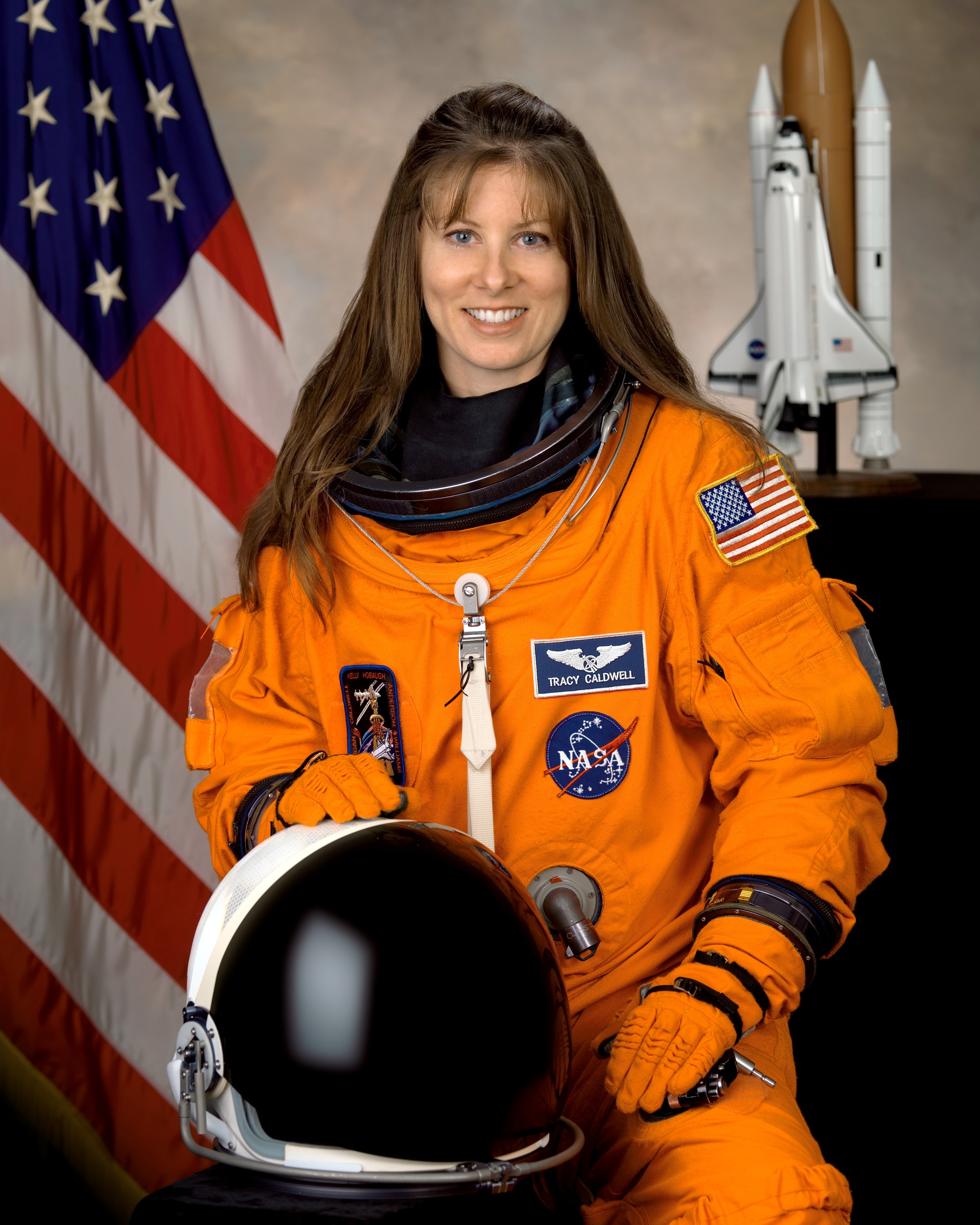 Astronaut Tracy Caldwell, mission specialist of STS-118.